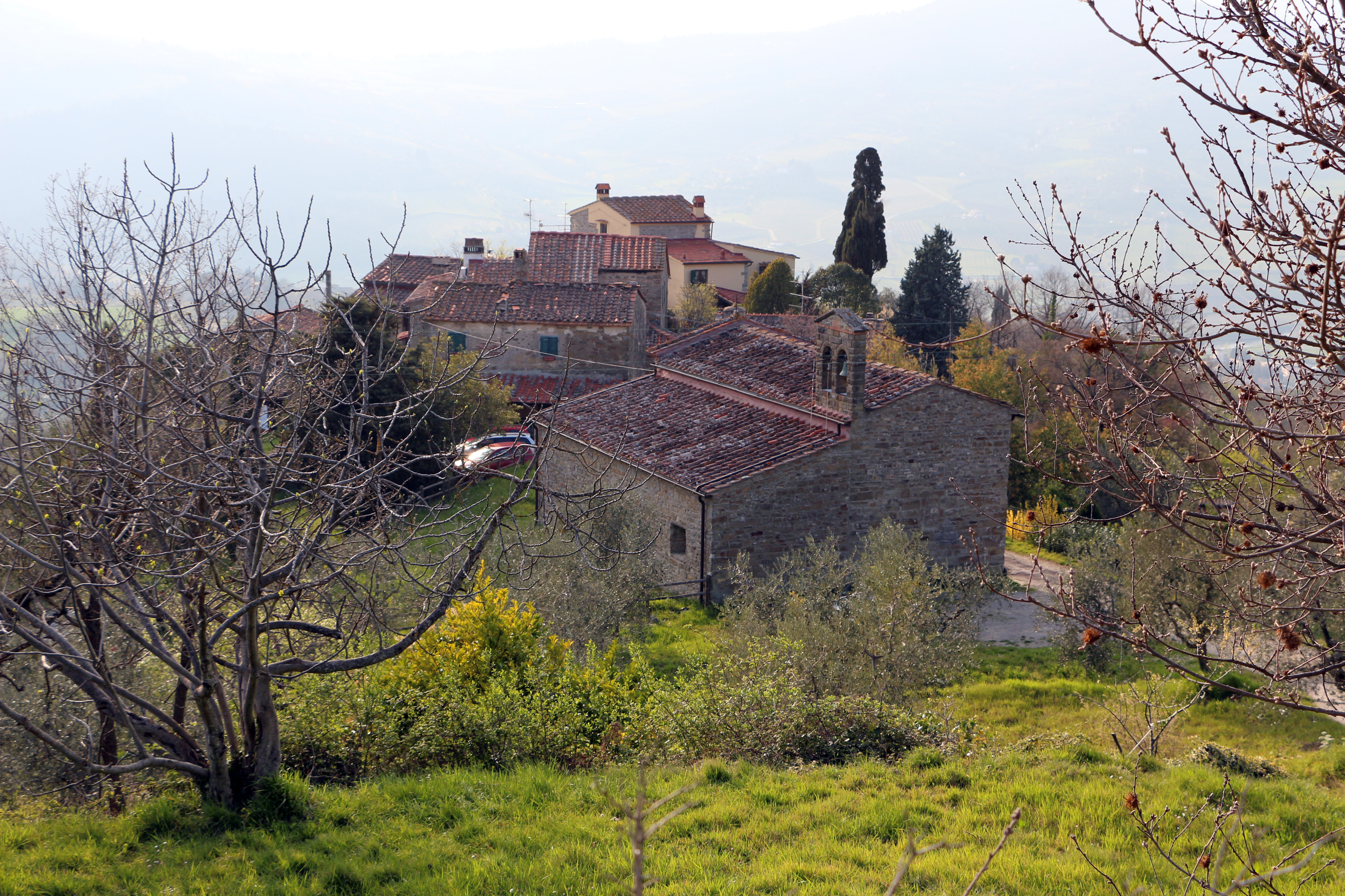 Rufina